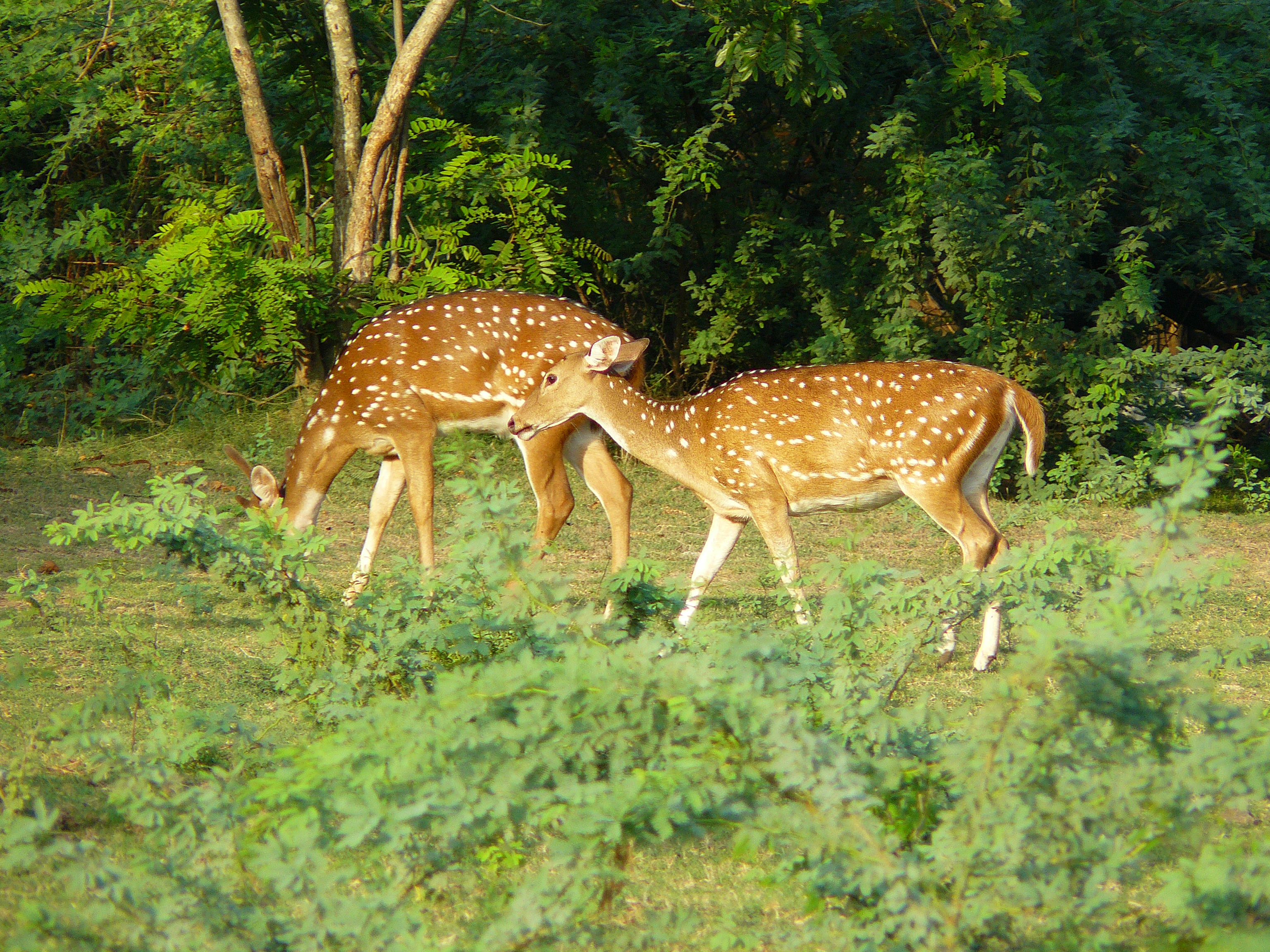 Deer at IIT Madras in Chennai, in the open ground between SAC and the stadium, photographed with a handheld Panasonic FZ8. The photograph is untouched, and the included EXIF data are accurate.